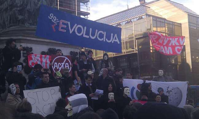 Anonymous Srbija Anti Acta Protest 25.02.2012, organized by anonymous srbija and 99%